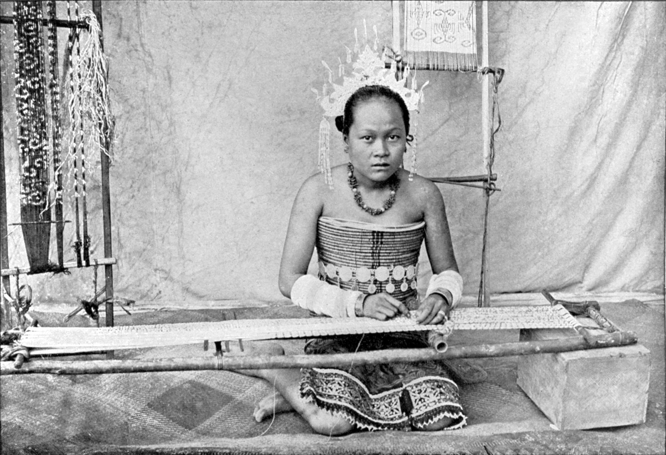 SEA-DAYAK WOMAN (SARAWAK BORNEO) With rawai or brass corset, silver tiara and shell ornaments. She is preparing a warp of cotton thread for dyeing. The Sea-Dayak woman weave from cotton thread of their own manufacture a strong cloth with a two- or three-colour design in it, the designs being produced by what is known as a " stop-out" process. The warp threads are stretched on a frame, and bundles of the threads are tied up here and there with strips of palm-leaf, the position of these tied-up bundles depending on the character of the desired design. The warp is then dipped into a red dye, and on removal from it the palm-leaf strips are cut off, and the design appears in the natural colour of the thread against a red background, or vice versa, according as the" stopping-out" has been arranged. If a third colour is required, the palm-leaf strips are not cut off on removal from the red dye, but more arc added, and the warp goes then into a blue dye, which, of course, acts only on the uncovered portions of the warp threads. Finally, the warp is stretched on a simple loom, and an undyed weft is woven in. The illustration on p. 175 shows a woman tying up the warp-threads; frames holding the unwoven fabric in various stages are in the background: the woman wears a petticoat of cloth of her own manufacture.